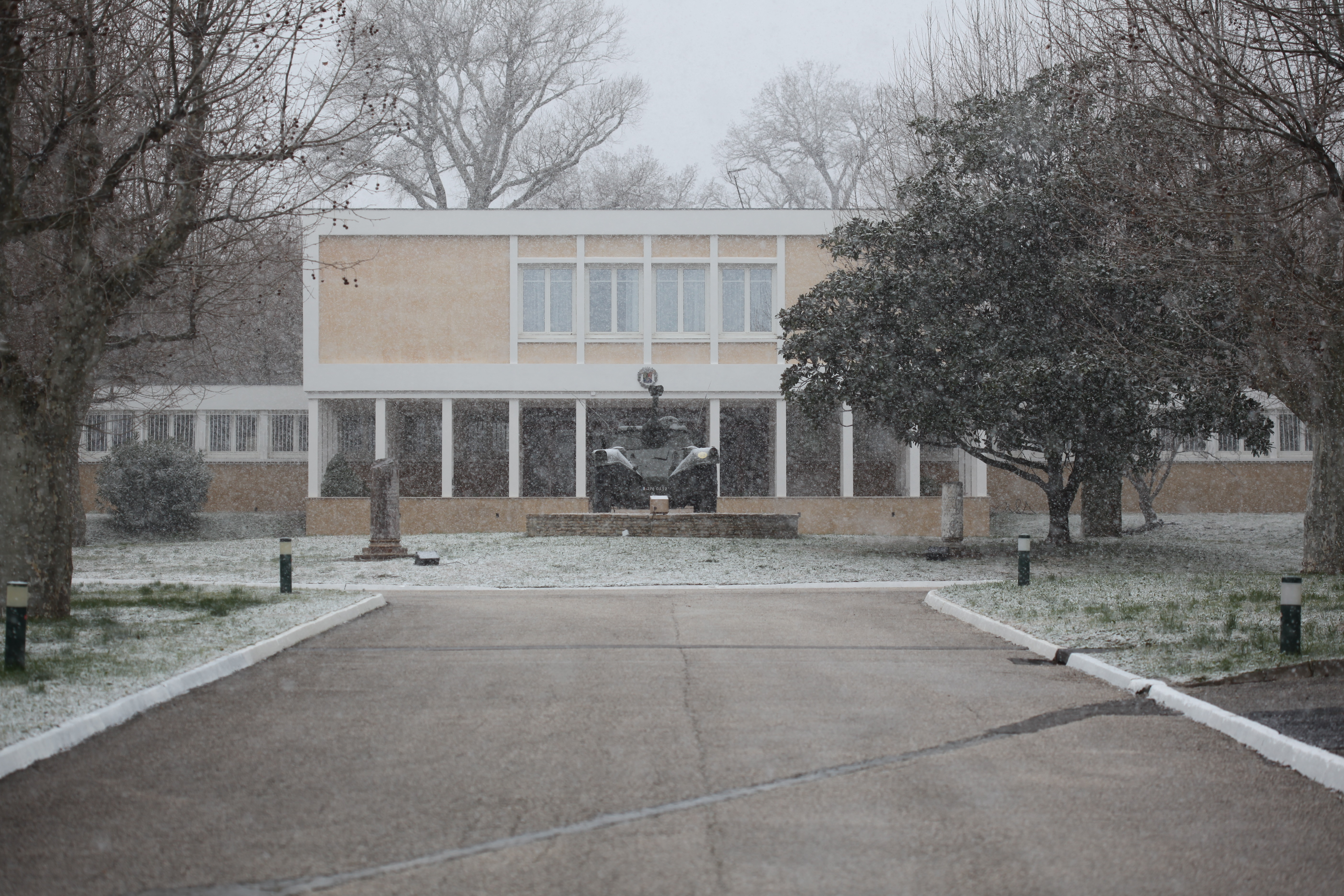 Face Est de l'état-major